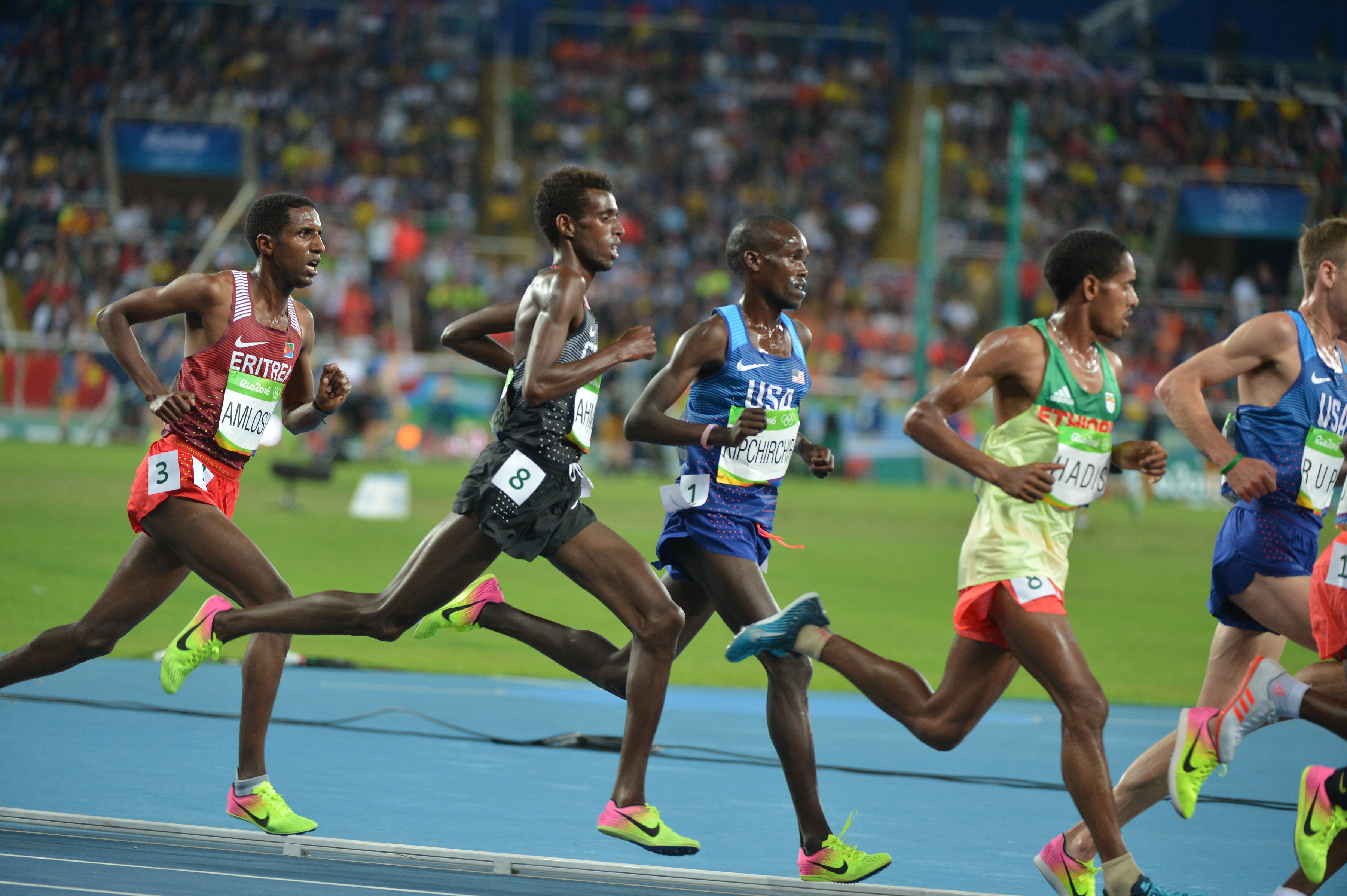 Spcs. Leonard Korir and Shadrack Kipchichir finish 14th and 19th respectively in the men's 3,000-meter run Aug. 13 at the 2016 Rio Olympic Games in Rio de Janeiro. Both Soldiers in the U.S. Army World Class Athlete Program turned in their season-best performaces, with Korir finishing in 27 minutes, 58.65 seconds and Kipchirchir clocked at 27:58.32. Mohamed Farah of Great Britain successfully defended his Olympic crown by winning the race in 27:05.17. Paul Kipnetech Tanui of Kenya took the silver in 27:05.64, and Tamirat Tola of Ethiopia claimed the bronze in 27:06.27.